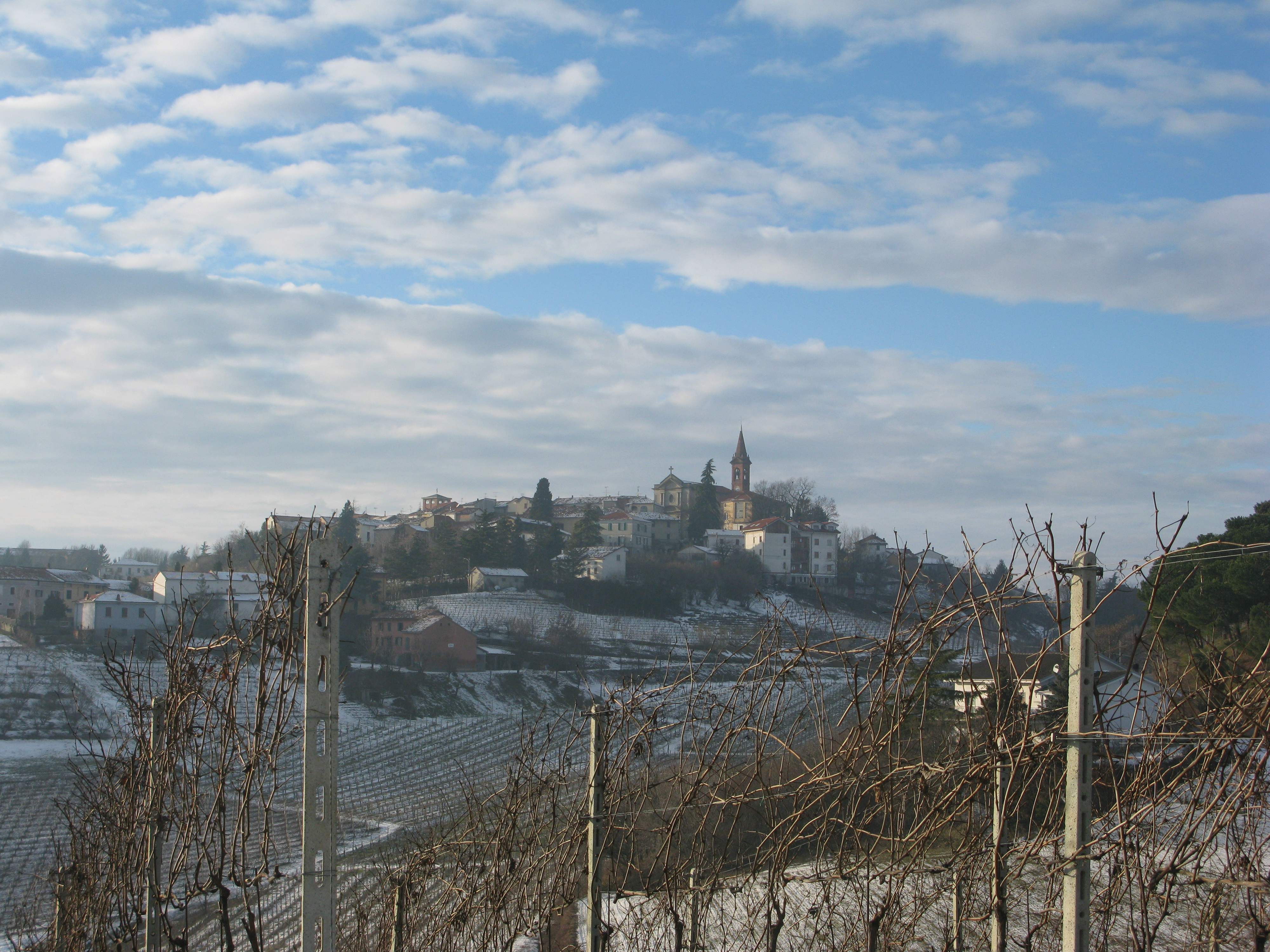 Vineyards during winter in the Italian wine region of Asti in the Piedmont.